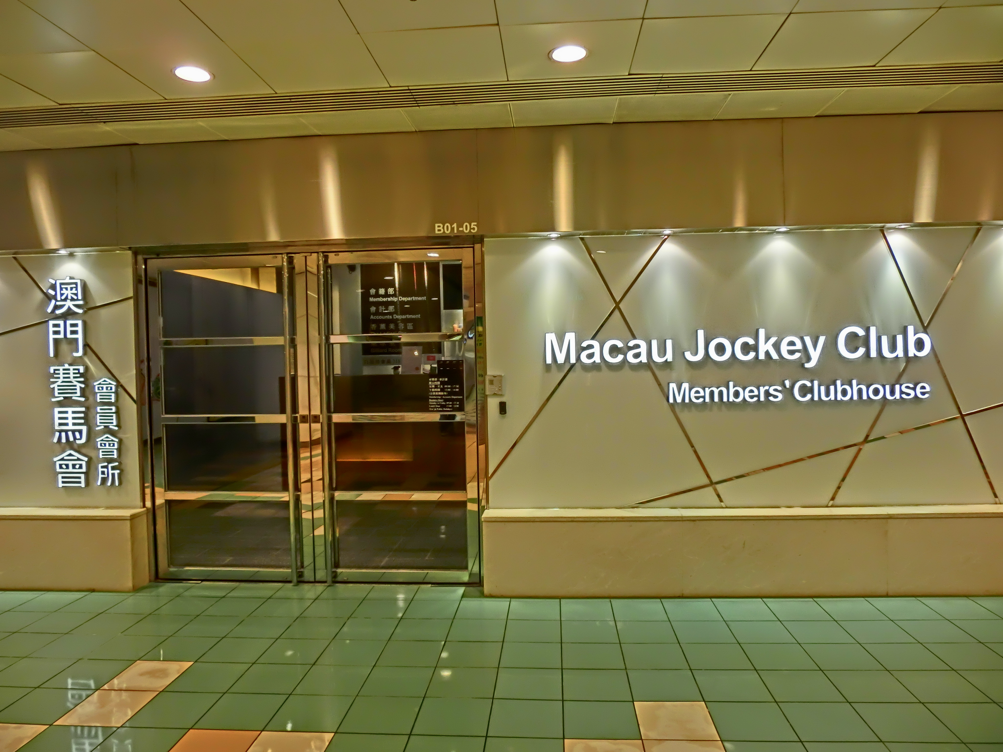 上環 信德中心, Shun Tak Centre, Sheung Wan, Hong Kong